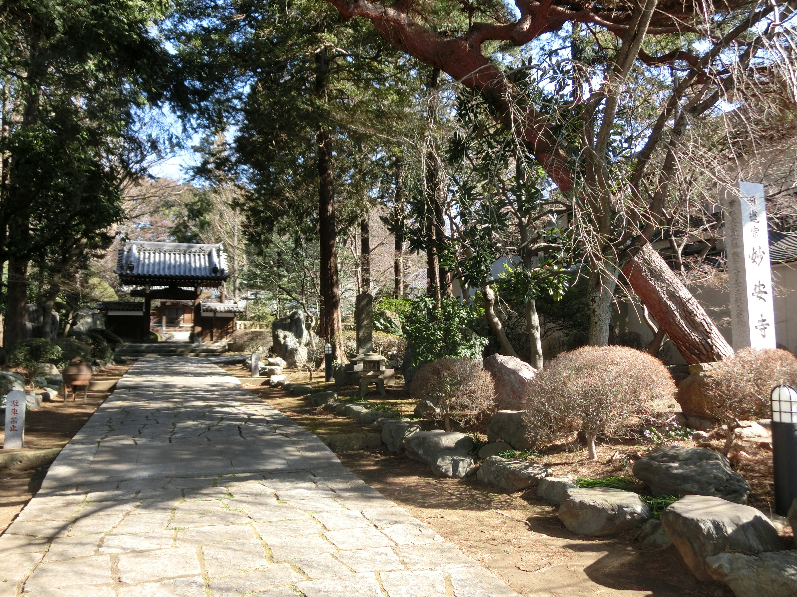 Myoan-ji (Nerima)